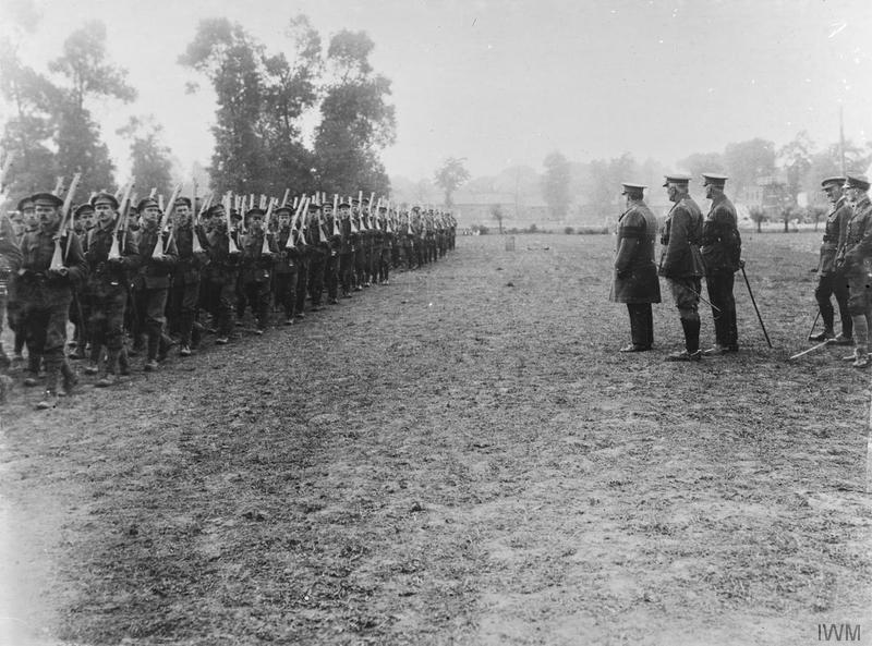 The Official Visits To the Western Front, 1914-1918 The 15th Battalion, London Regiment (Civil Service Rifles), 47th Division, marching past the Lord Mayor of London, Colonel Sir Charles Wakefield, 11th June 1916.